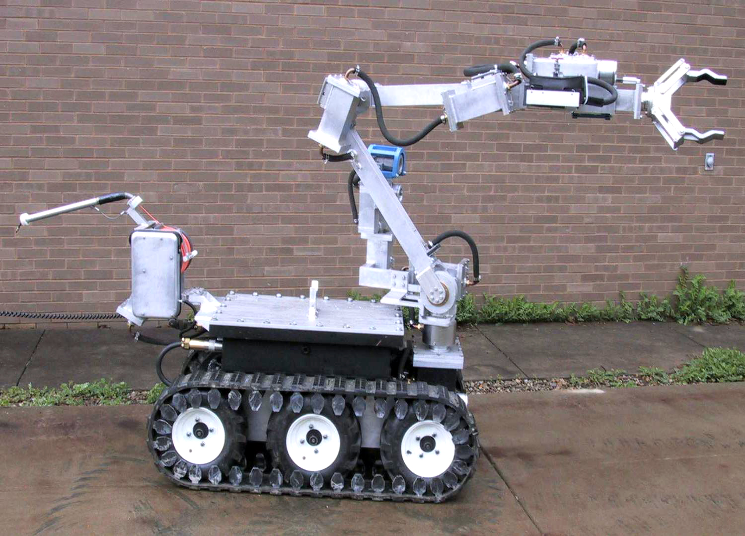 ANDROS Wolverine V2 used by the Mine Safety and Health Administration during the Sago Mine response.